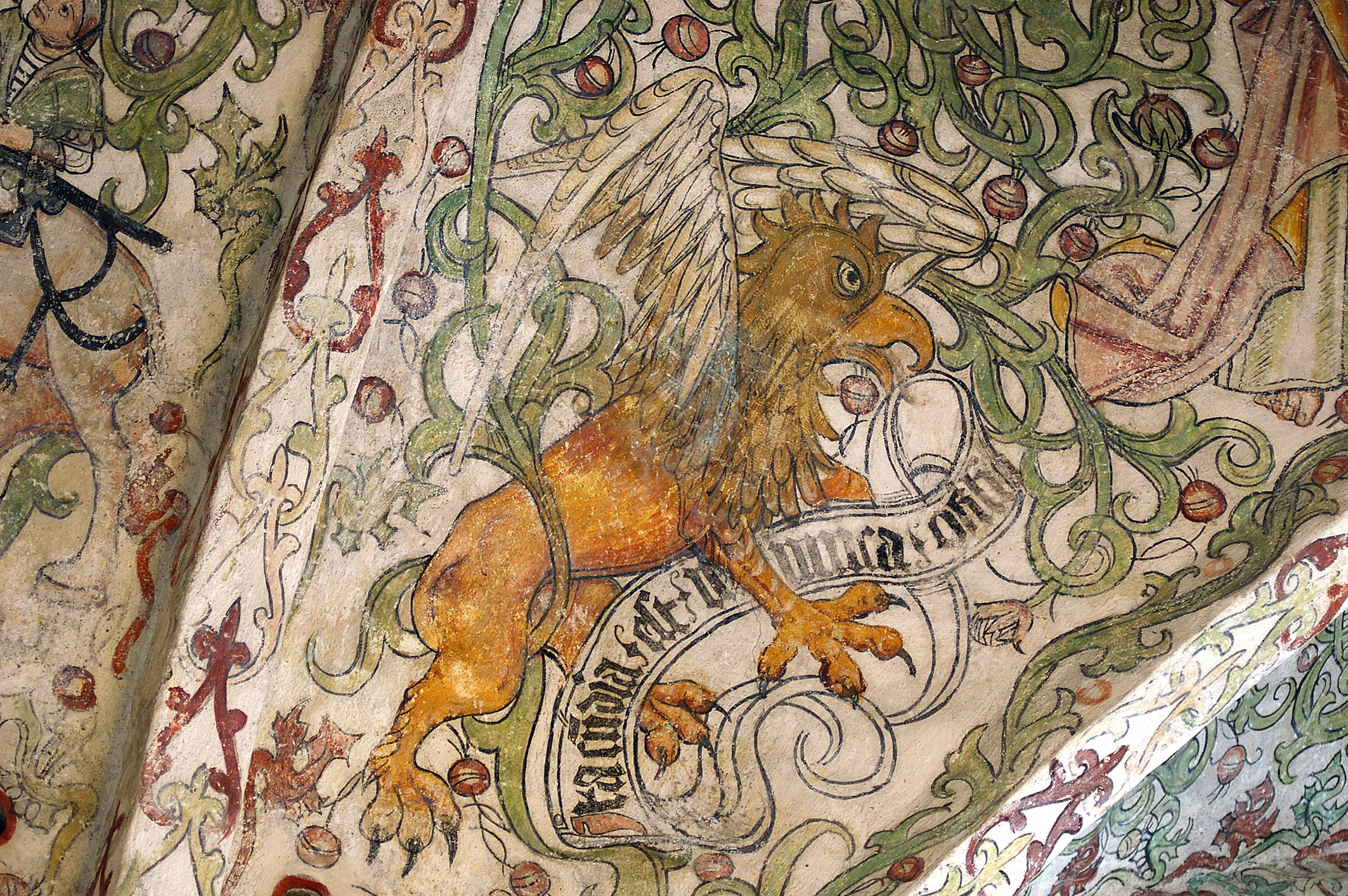 The griffin of Malmo in the church of St. Peter, Malmö, Sweden about 1460.